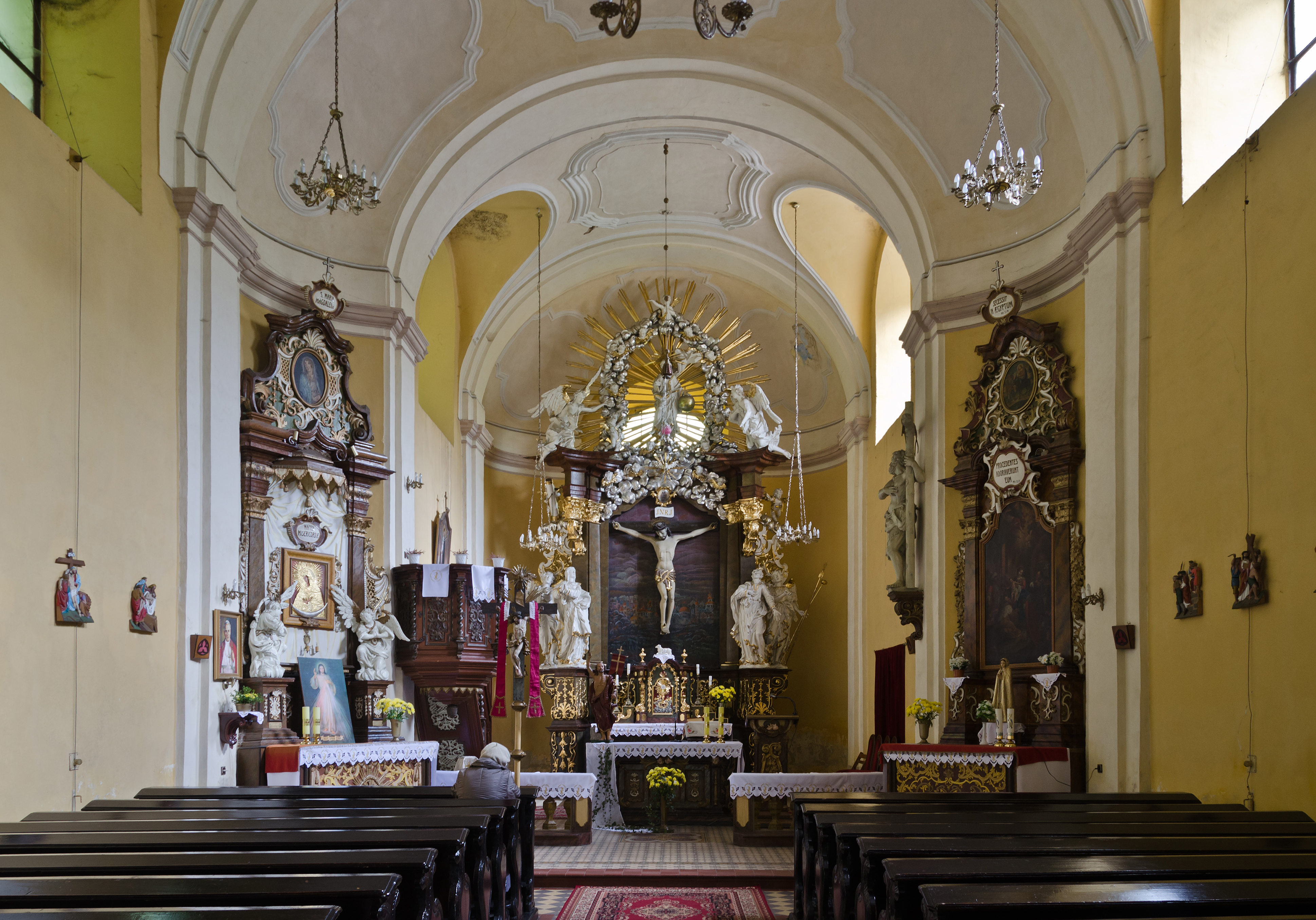 Holy Cross church in Nowa Ruda